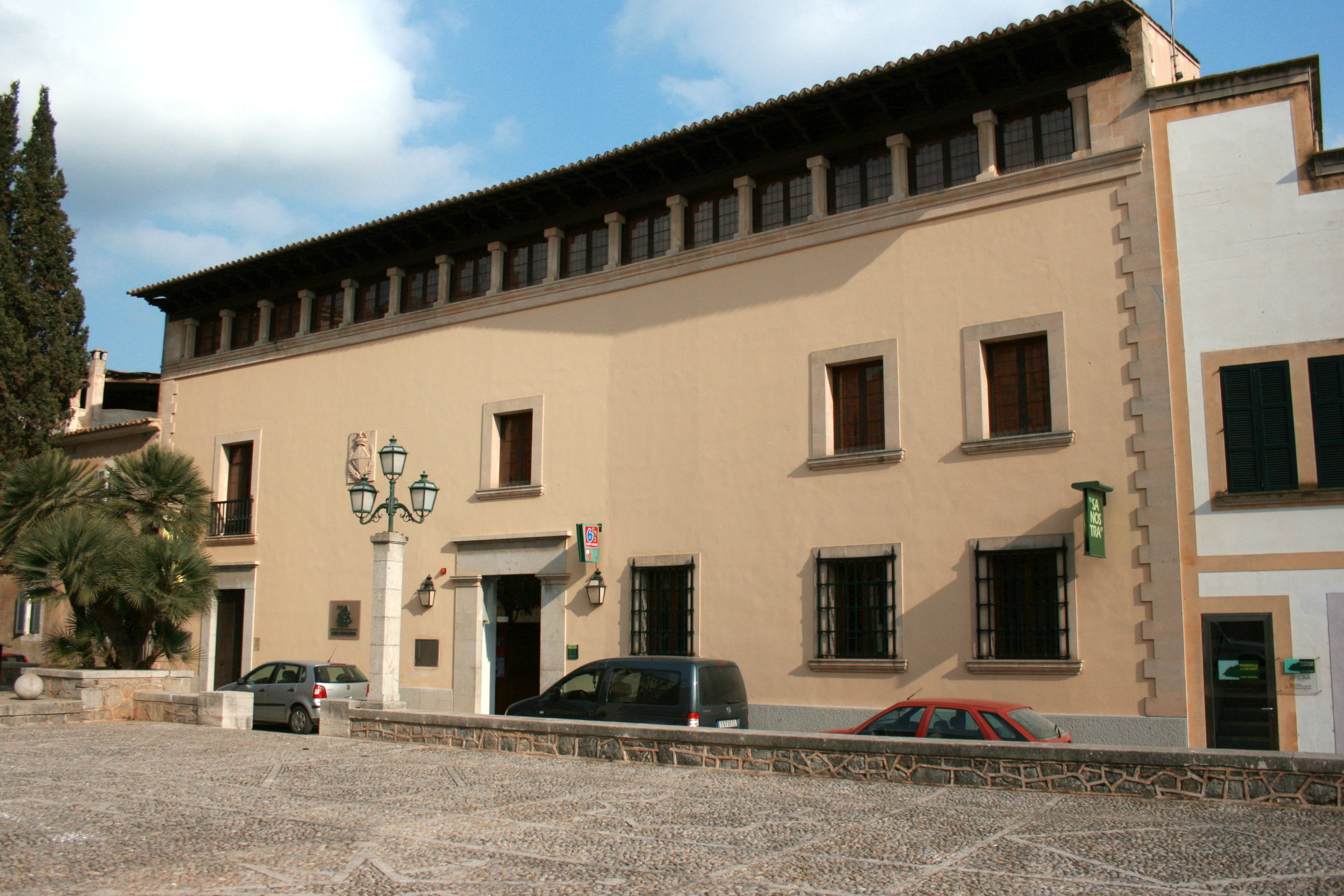 Facade Regional Museum of Artà, Mallorca and Caixa d'Estalvis Sa Nostra-Caixa de Balears